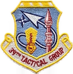 Emblem of the USAF 39th Tactical Group